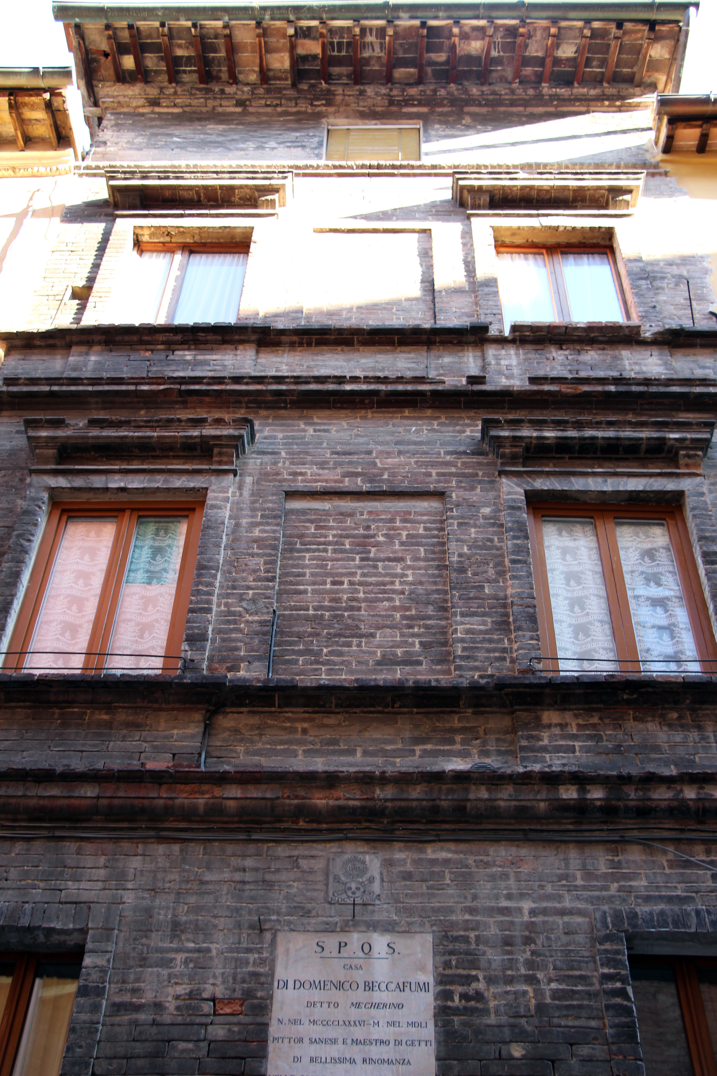 Castelvecchio (Siena)